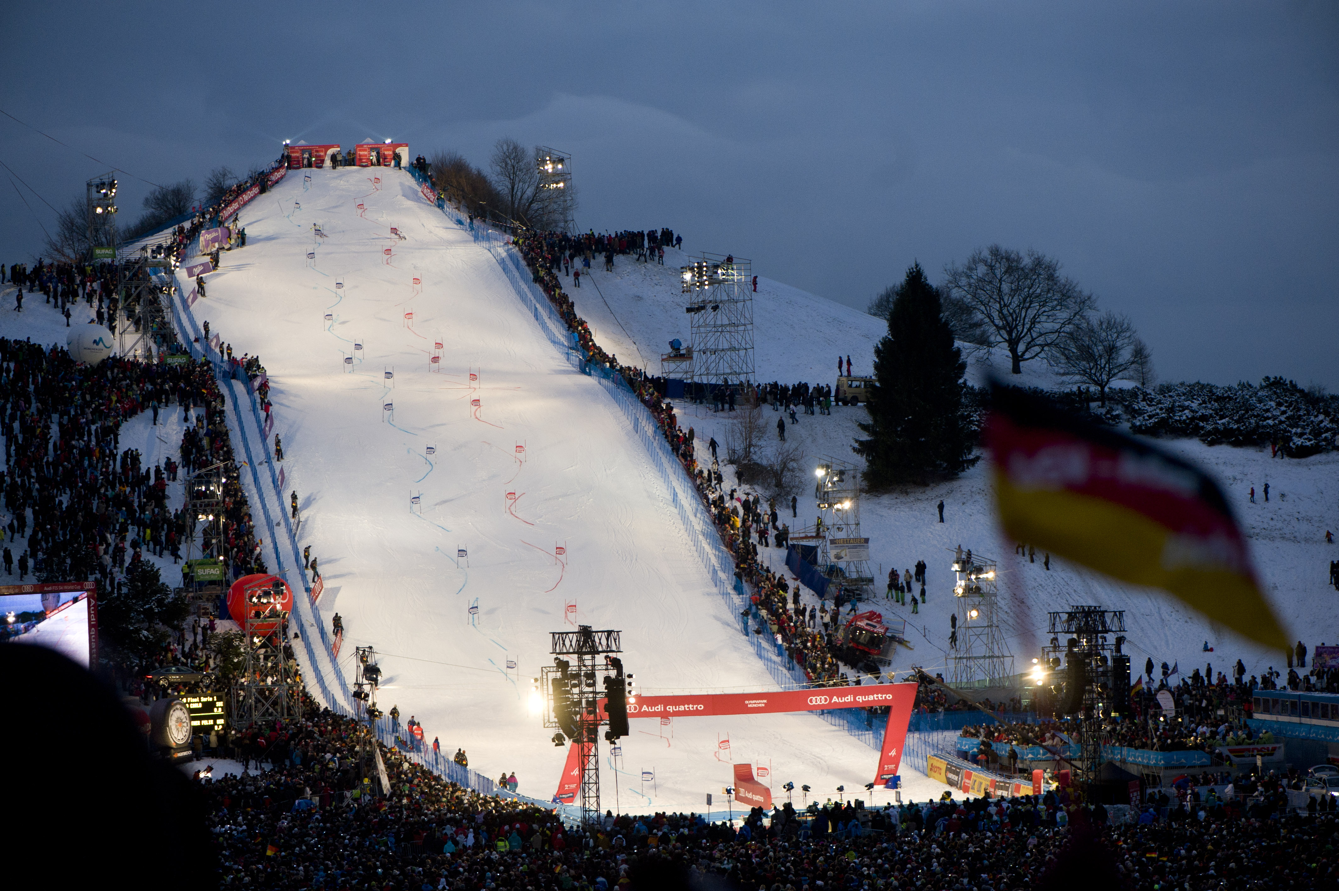 Audi FIS Ski World Cup 2011, Olympiaberg München